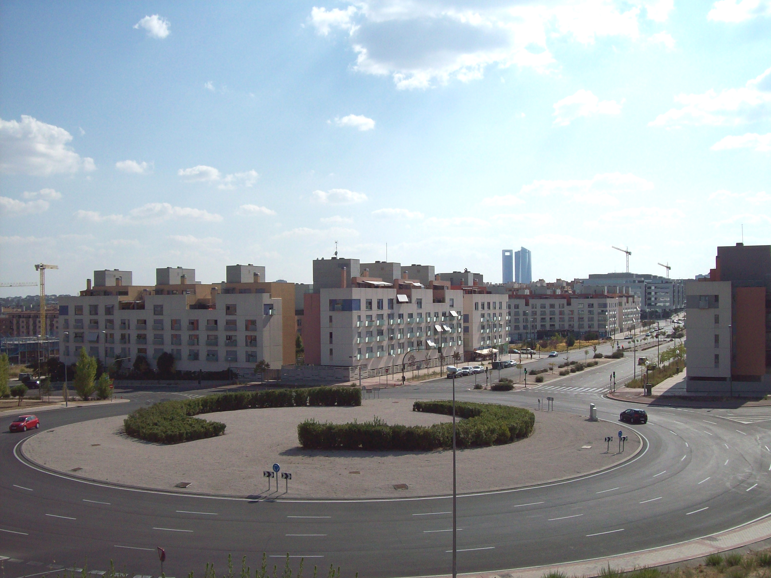 View of Avenida del Camino de Santiago (an avenue) in Las Tablas neighborhood (Fuencarral-El Pardo district) in Madrid (Spain).